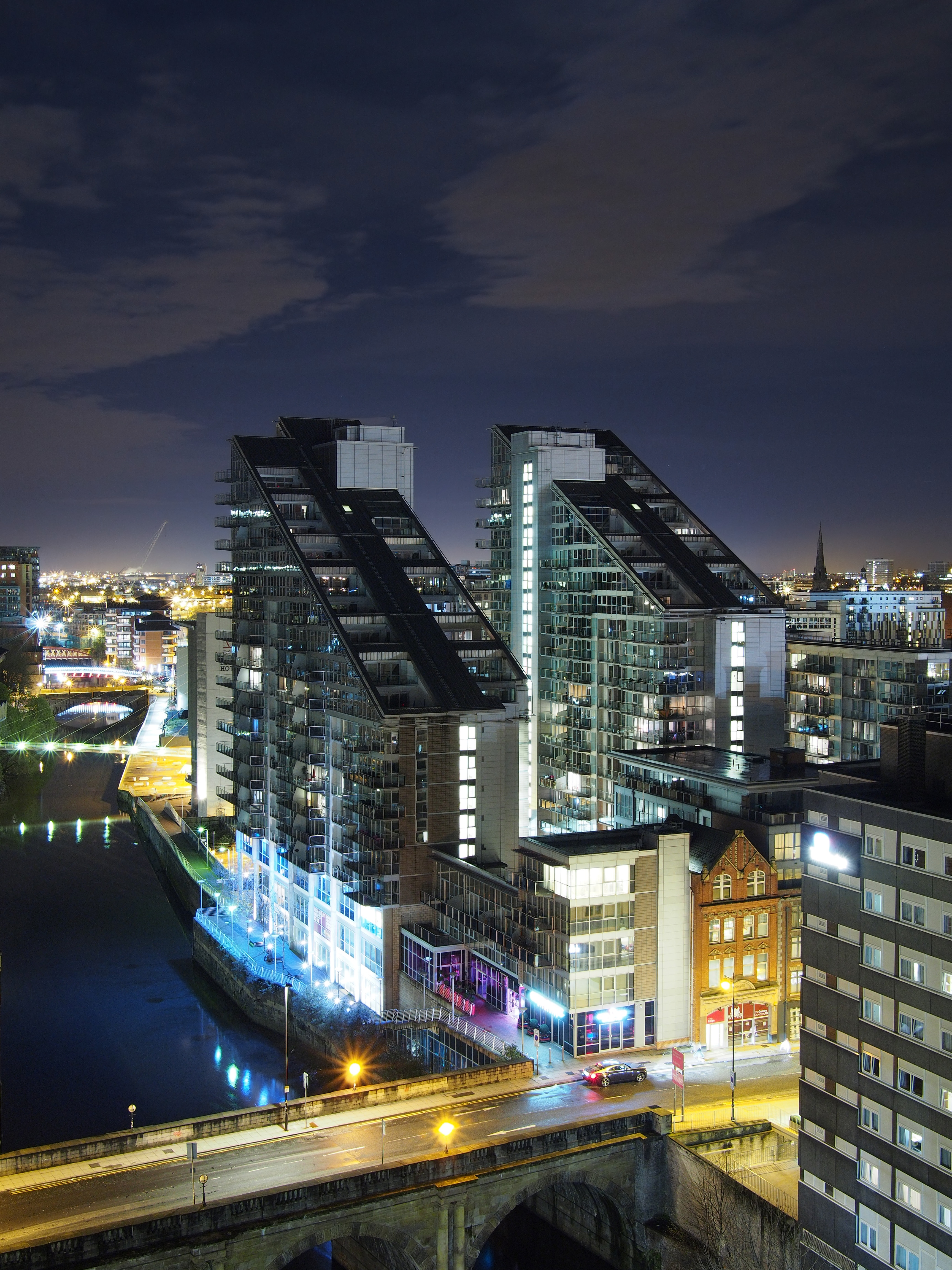 The Edge apartment blocks in Salford, on the banks of The Irwell - a river which forms the border between the cities of Salford and Manchester